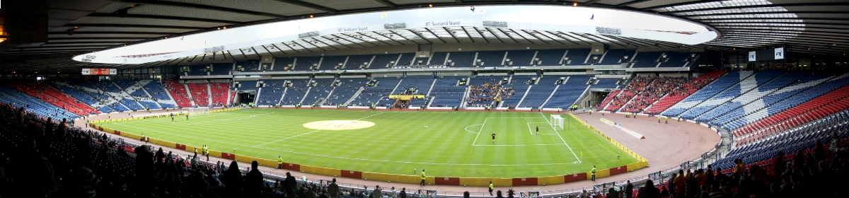 Hampden Park, Scotlands National Stadium, Glasgow